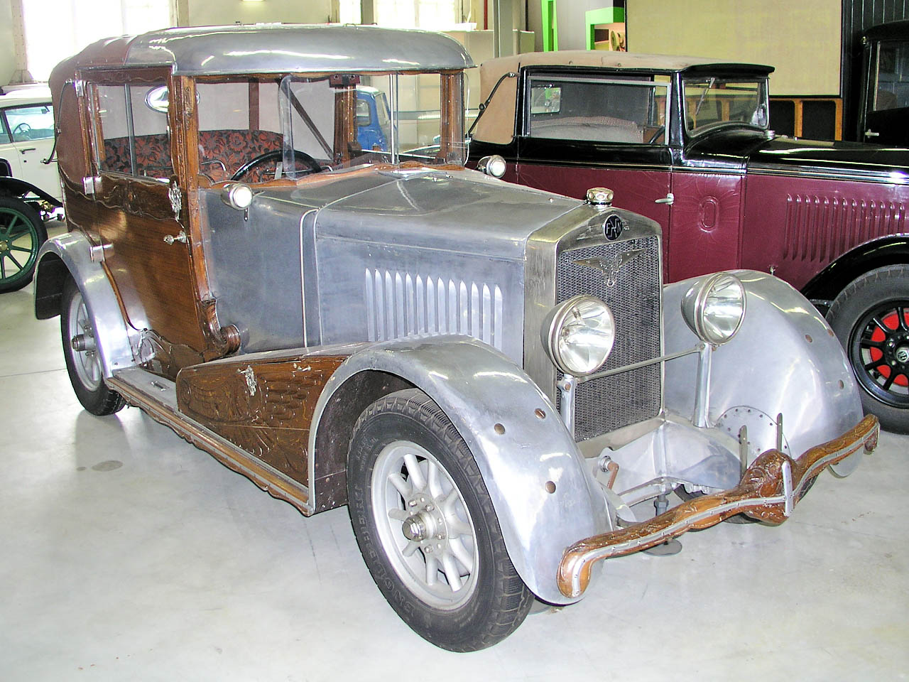 1.4 litre 4-cylinder car with special bodywork for the Shah of Persia, made in Belgium by Fabrique Nationale d'Armes de Guerre; front-side view